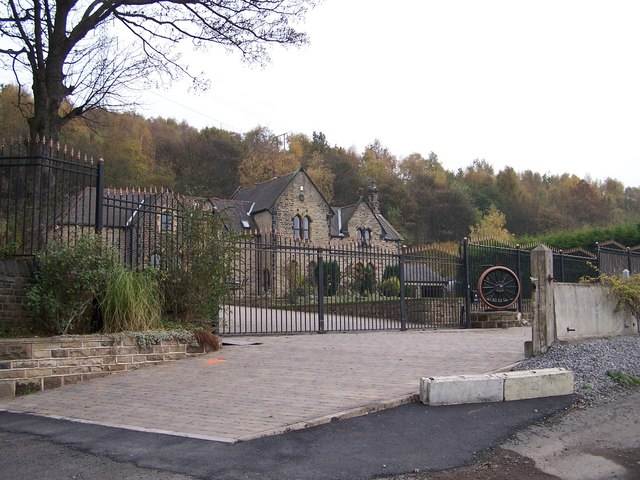 Deepcar Station House, Deepcar. A superb conversion from Station to House ... fantstic. 1033493